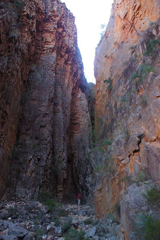 Bunyip Chasm, Gammon Ranges, South Australia. Taken by myself.